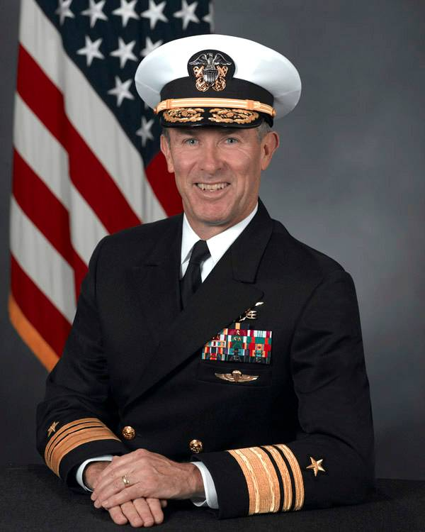 Vice Adm. Joseph Maguire